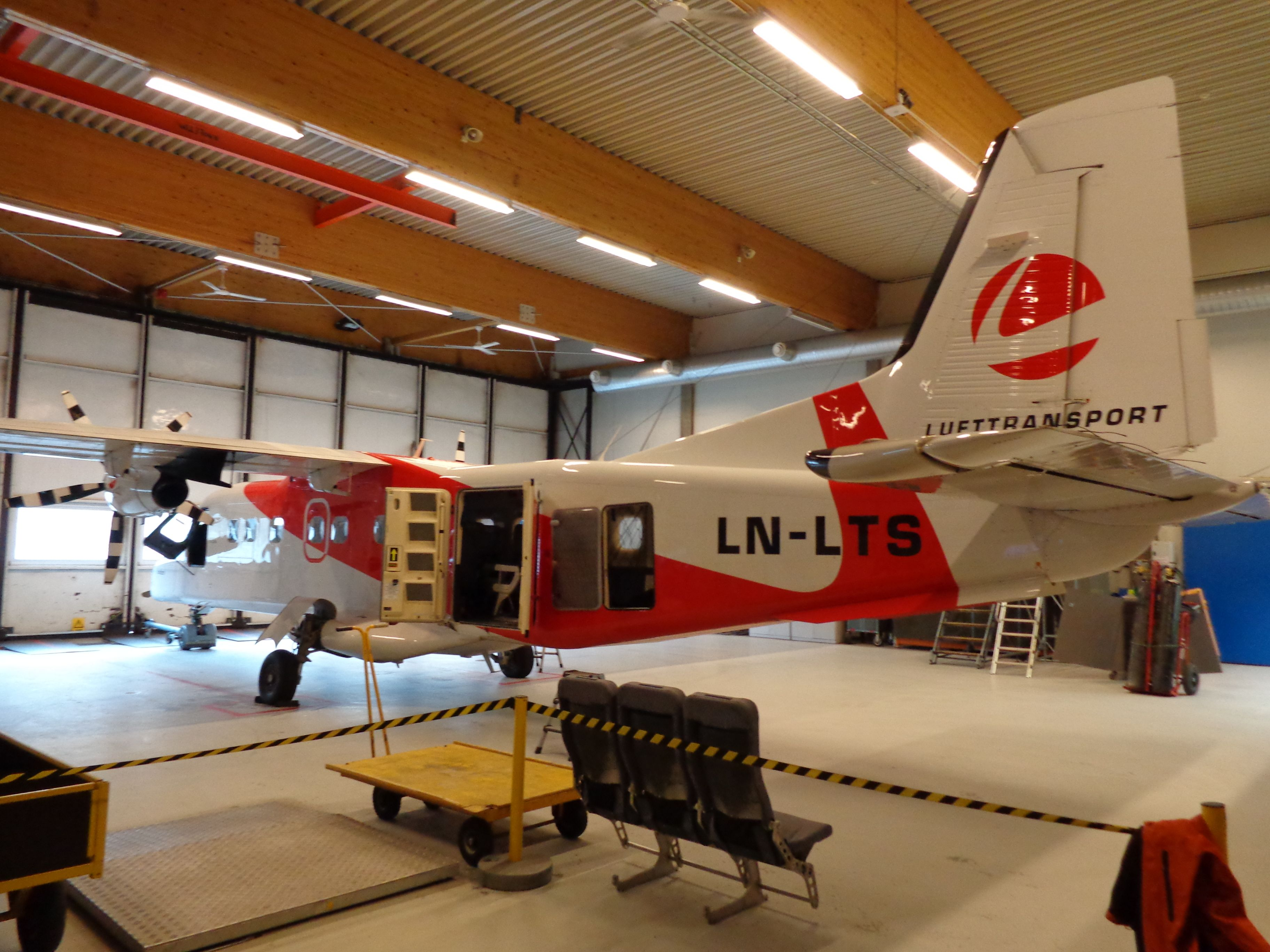 Longyearbyen airport